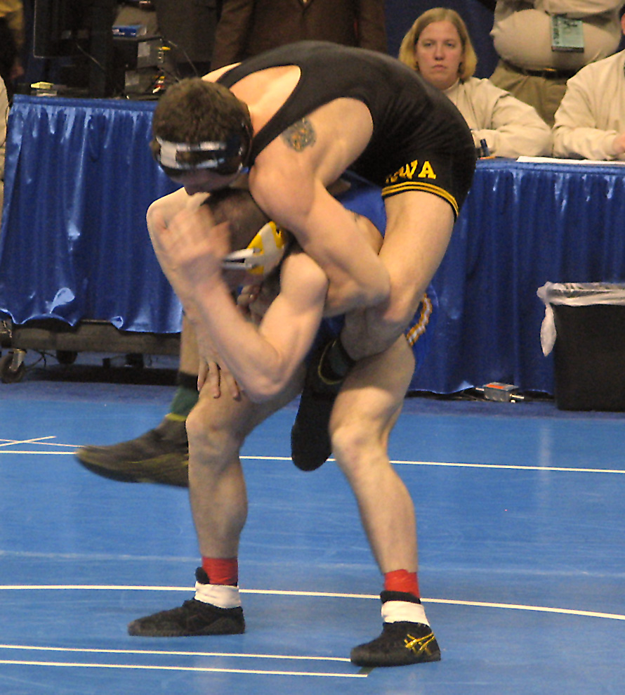 Iowa's Mark Perry rides Hofstra's Michael Patrovich on his way to a semifinal victory.